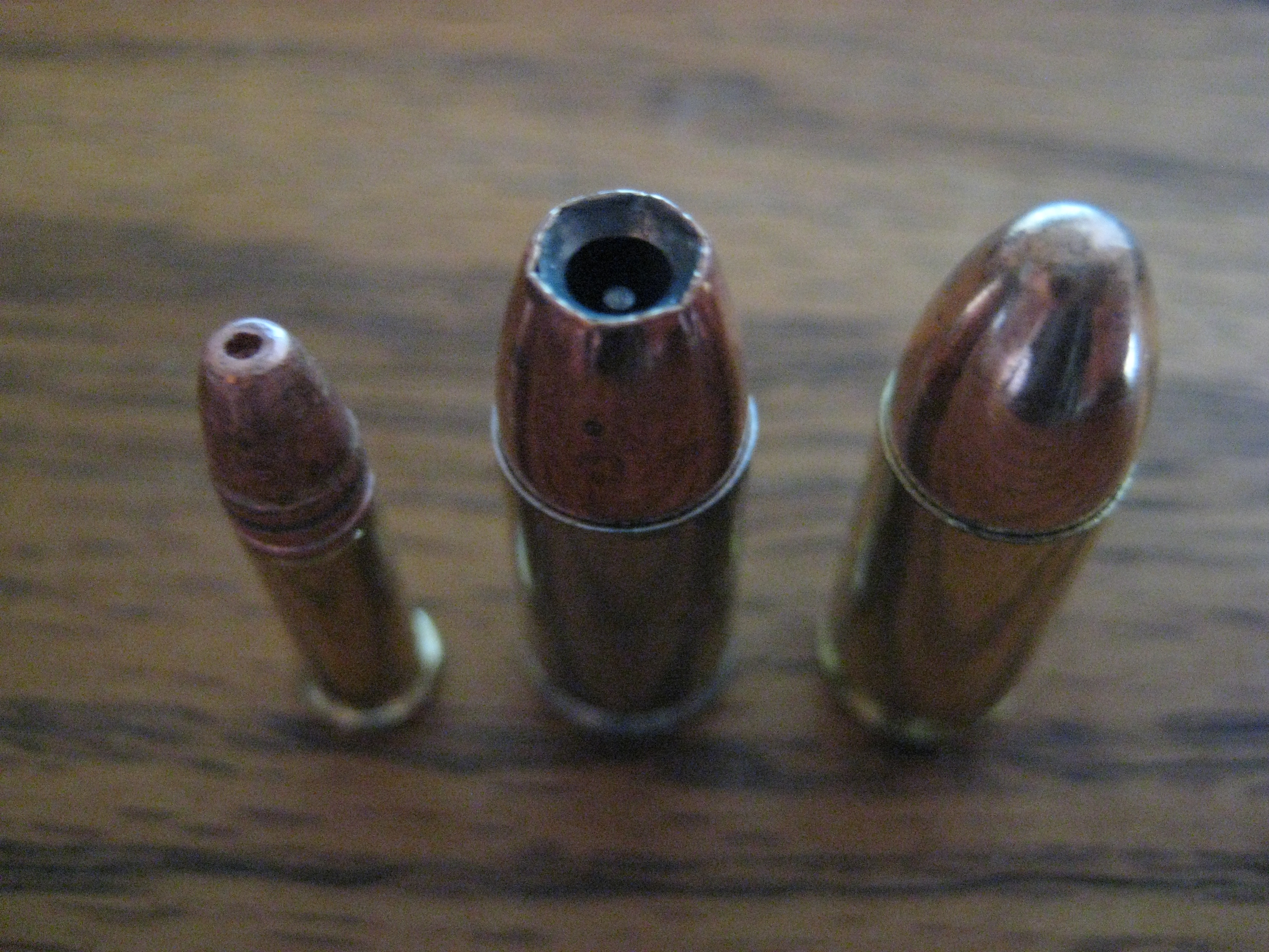 Top view of a 9mm Federal Hydra-Shok cartridge (P9HS2). To the left is a copper plated hollow-point .22LR (also from Federal) round and to the right is a Winchester 9mm Full Metal Jacket round (USA9MMVP).